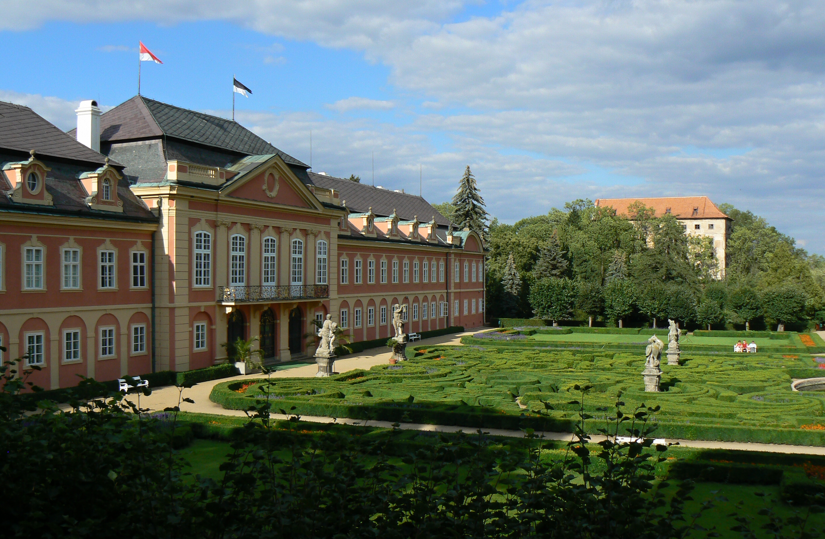 Rococo Dobříš chateau (or Castle) and French park with statues, labirinths and fountain, Příbram District